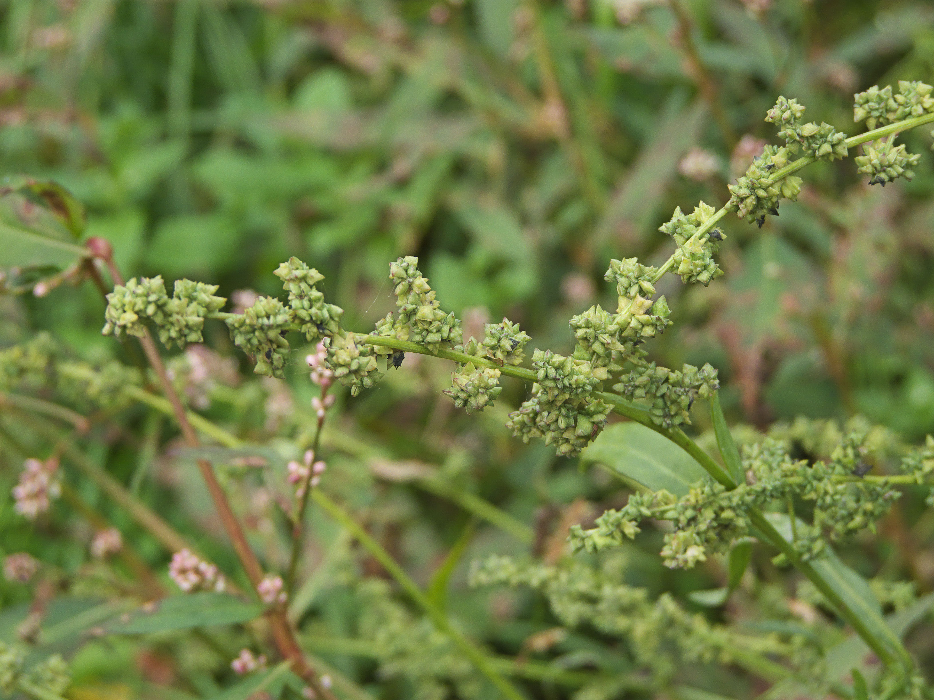 Atriplex patula inflorescence